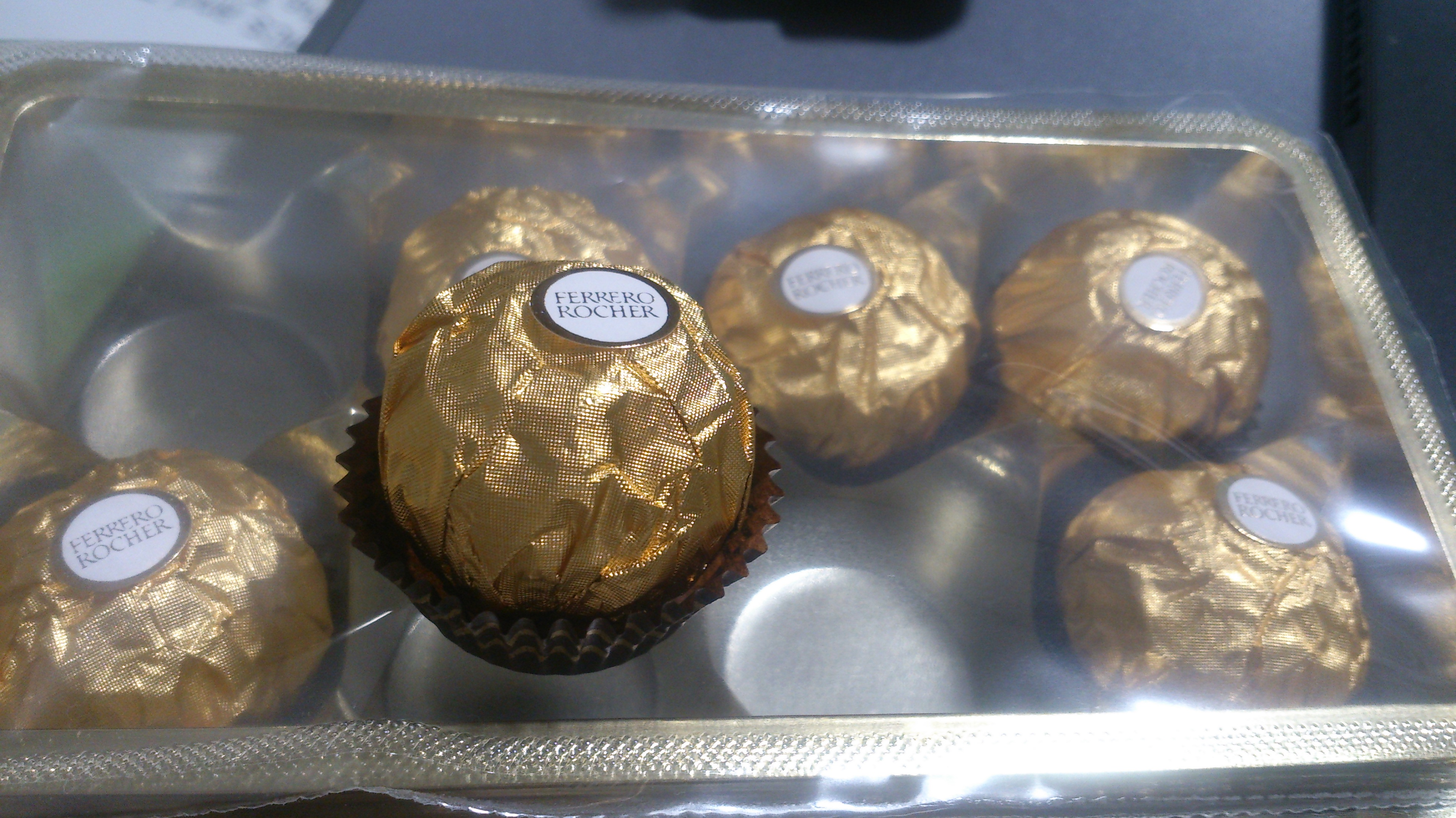 Ferrero Rocher